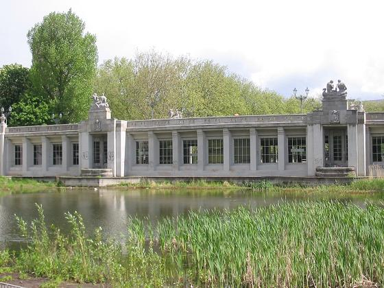 Subway station "Rathaus Schöneberg" (line U4) from outside with duck pond (Rudolph-Wilde-Park)